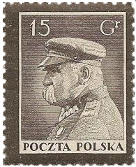 Józef Piłsudski on Polish stamp from 1935.